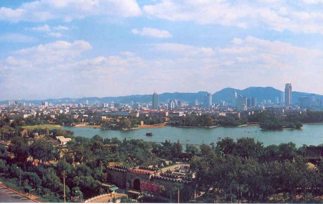 Overlook from the gate of Hubei Jinan Daming